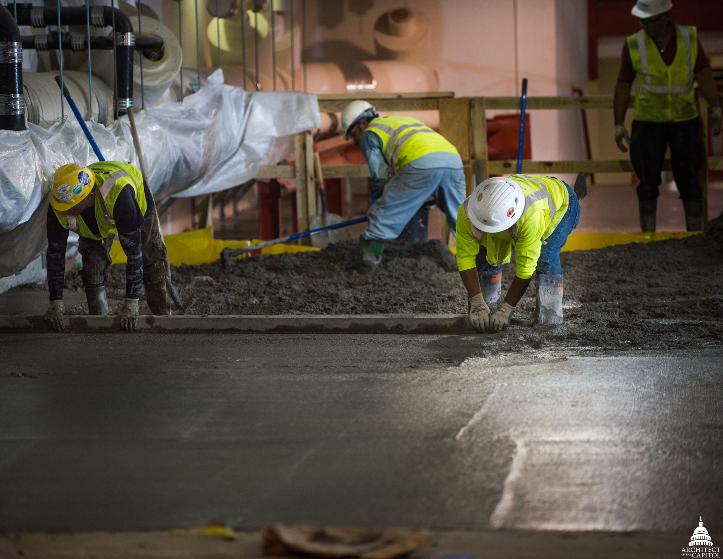 Concrete placement in the Cannon Building garage.​ Work during the initial phase of the Cannon Renewal Project includes updating building utilities, primarily in the basement and the moat area of the courtyard. This phase enables future phases to connect the new building-wide utility services with minimal shutdowns and disturbances. Full project details at